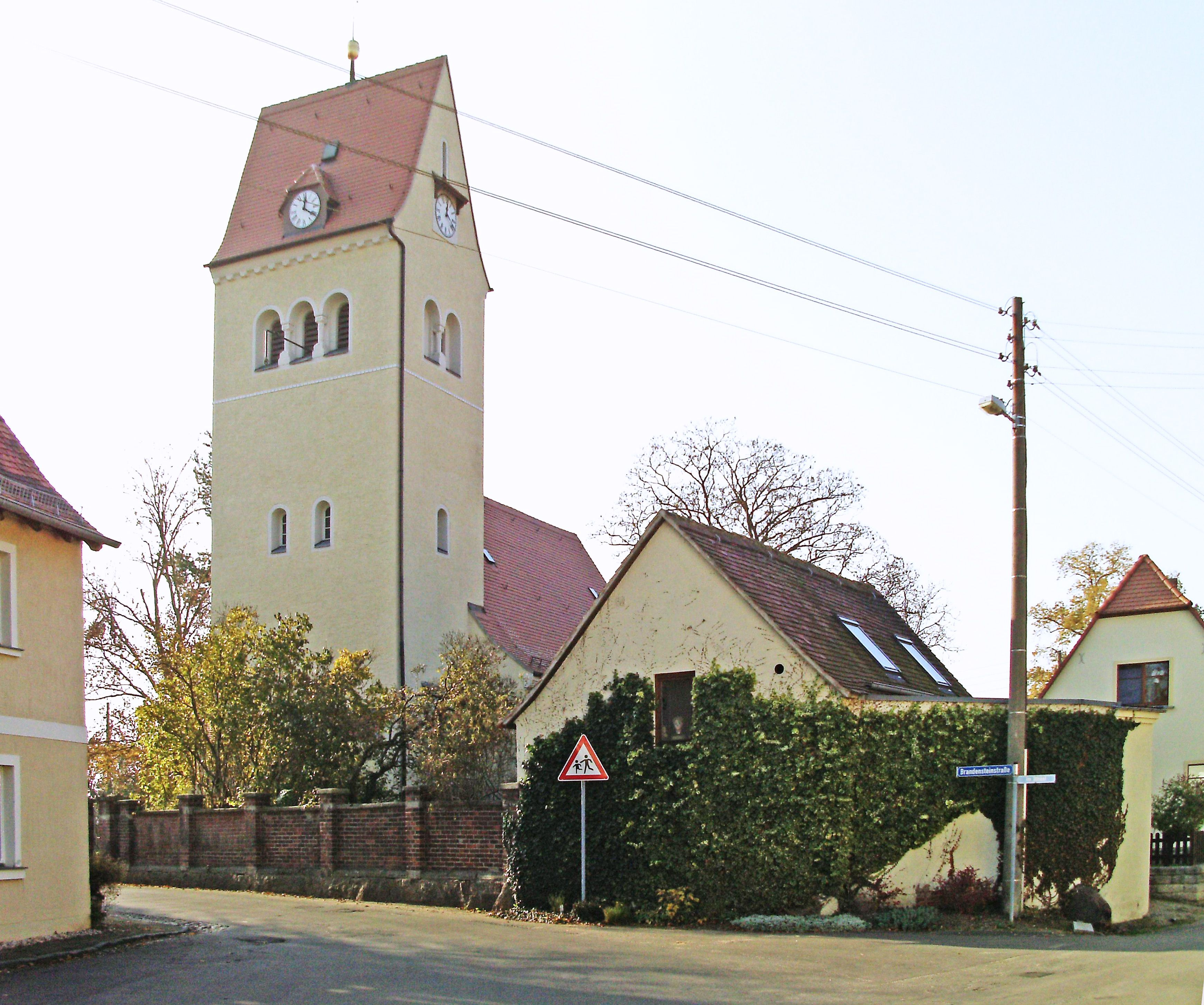 Rückmarsdorf church (Leipzig, Saxony)